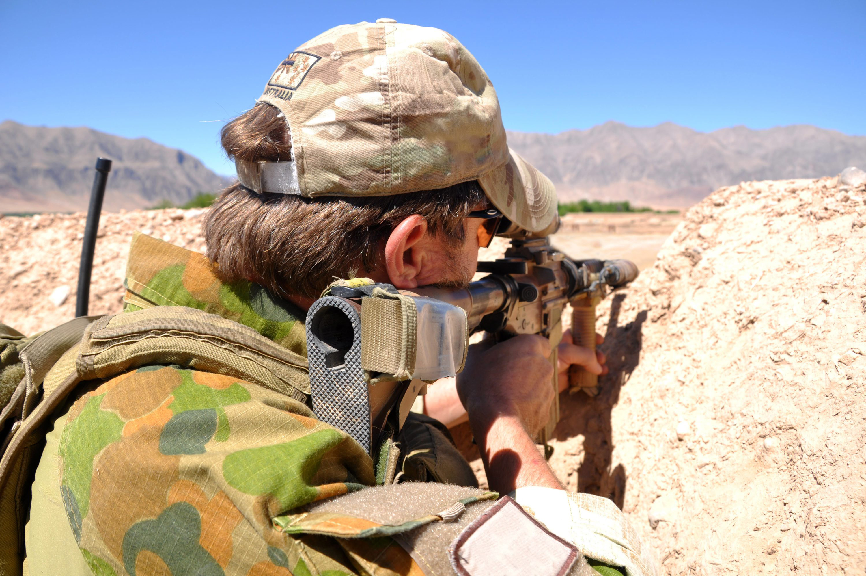 A member of the Special Operations Task Group takes a sight picture of enemy positions from the relative safety of a compound in northern Gizab The Taliban has been ousted from a northern Oruzgan town and local government has been restored thanks to a community uprising supported by Australian Special Forces soldiers and their Afghan partner force, the Provincial Police Reserve (PPR). In the northern Oruzgan town of Gizab, ten members of the Taliban were confirmed to have been killed in a series of firefights commencing on 21 April which saw the SOTG, the PPR, and locals take on the insurgents who were intimidating the population through violence. No members of the SOTG, PPR or locals were hurt in the battle, providing a sign of hope for the people of Gizab. With community leaders and Government officials from Oruzgan taking the lead and the Australian and Afghan forces providing security and guidance over the ensuing days, a large meeting was held in the centre of the town to nominate a new Gizab District Governor, a new Chief of Police and their deputies. The groundswell of popular support from the townspeople culminated in an impromptu ceremony in the middle of the town to raise the Flag of Afghanistan. During this, Australian personnel managed to conduct an Anzac Day dawn service at Gizab.